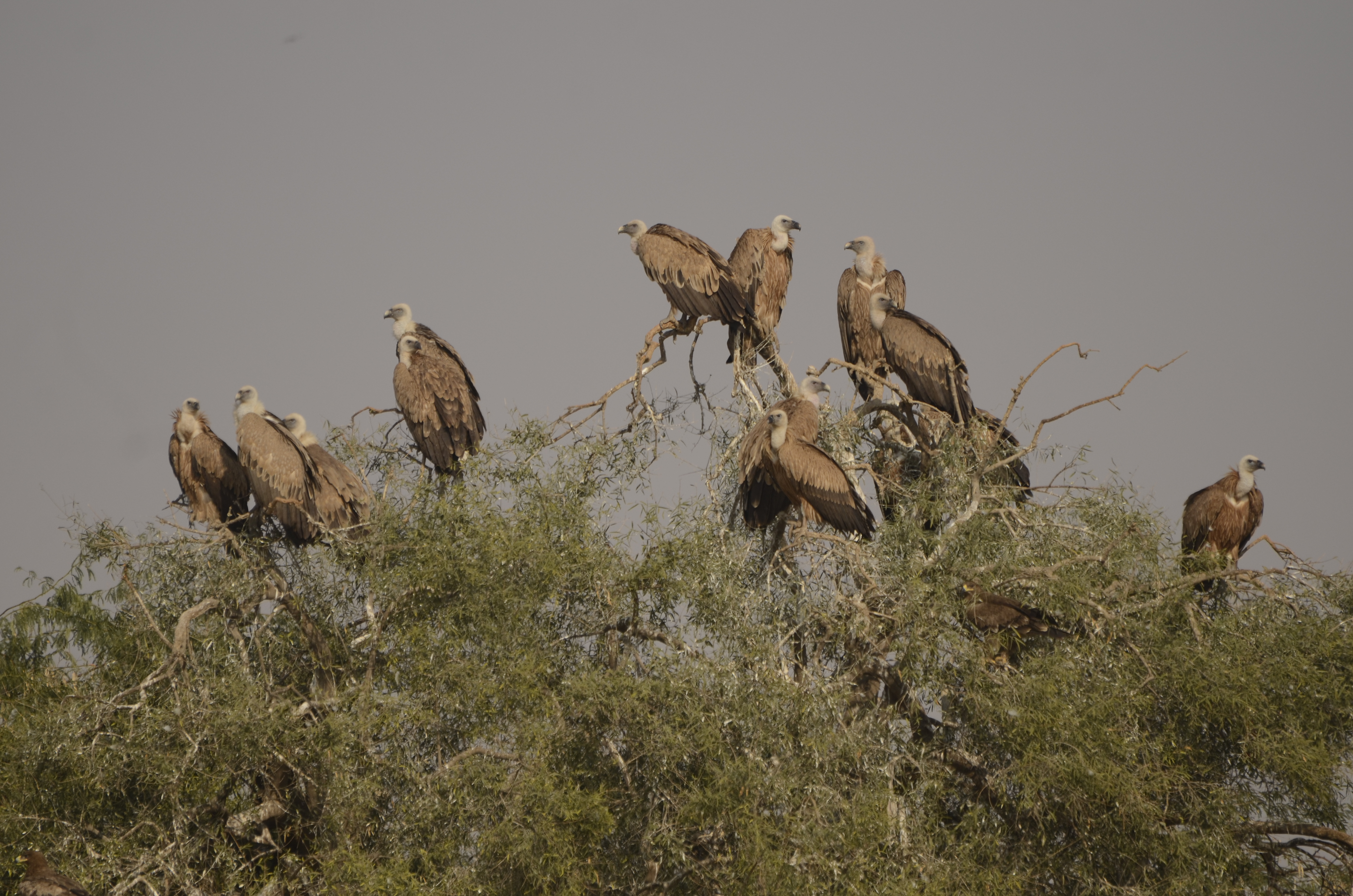 Griffon vultures Gyps fulvus from Bikaner carcass dump - jorbeed